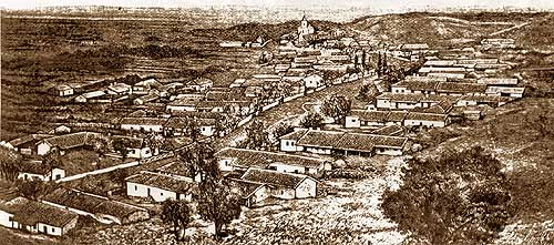 Zurichtal Swiss village community in the Crimea